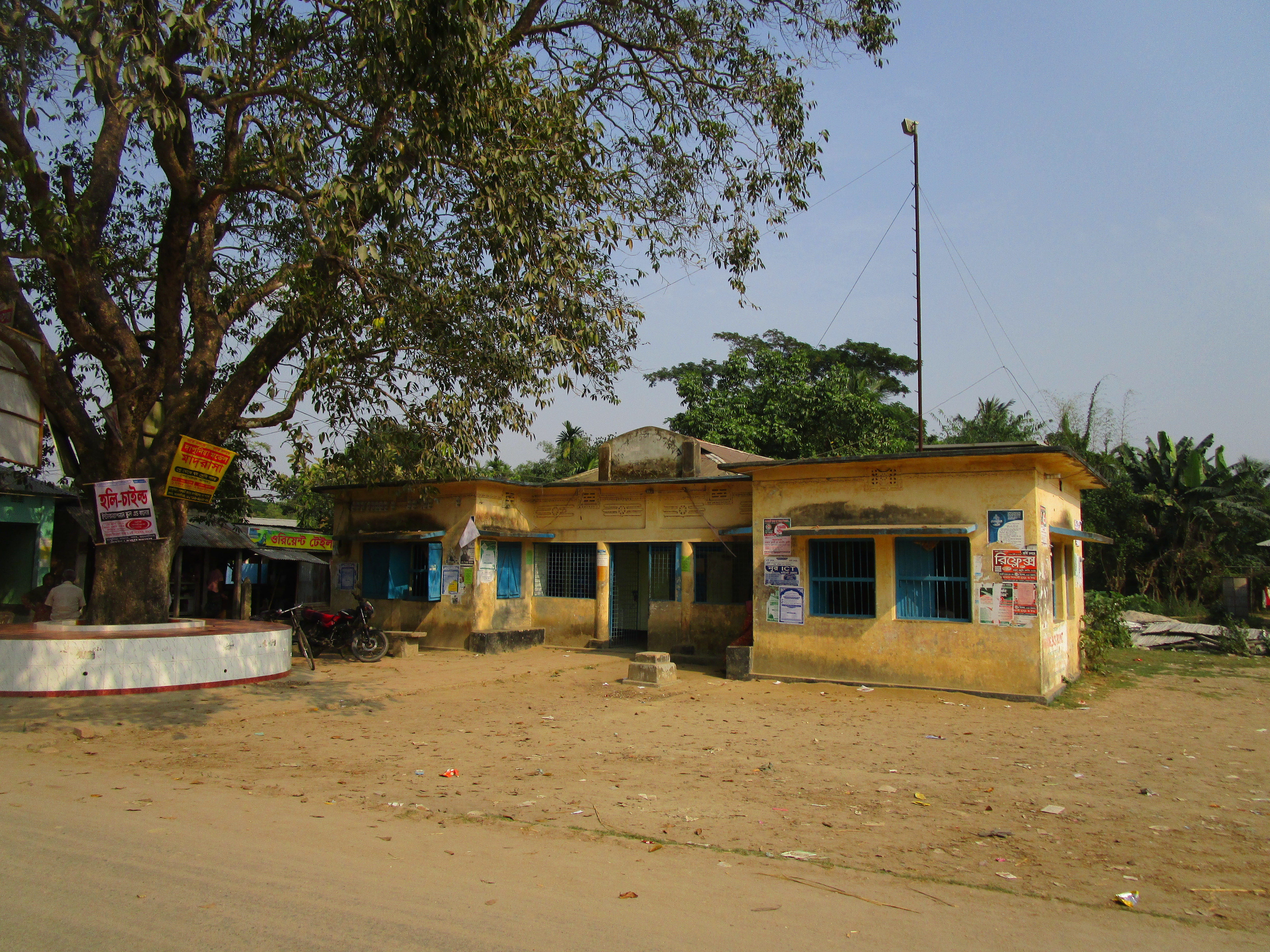 The office of Dapunia Union Parishad.